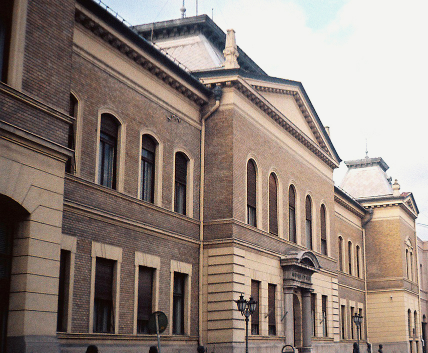 Matica srpska building in Novi Sad.